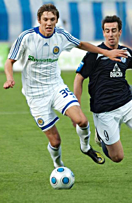 Denys Harmash, midfielder for FC Dynamo Kyiv